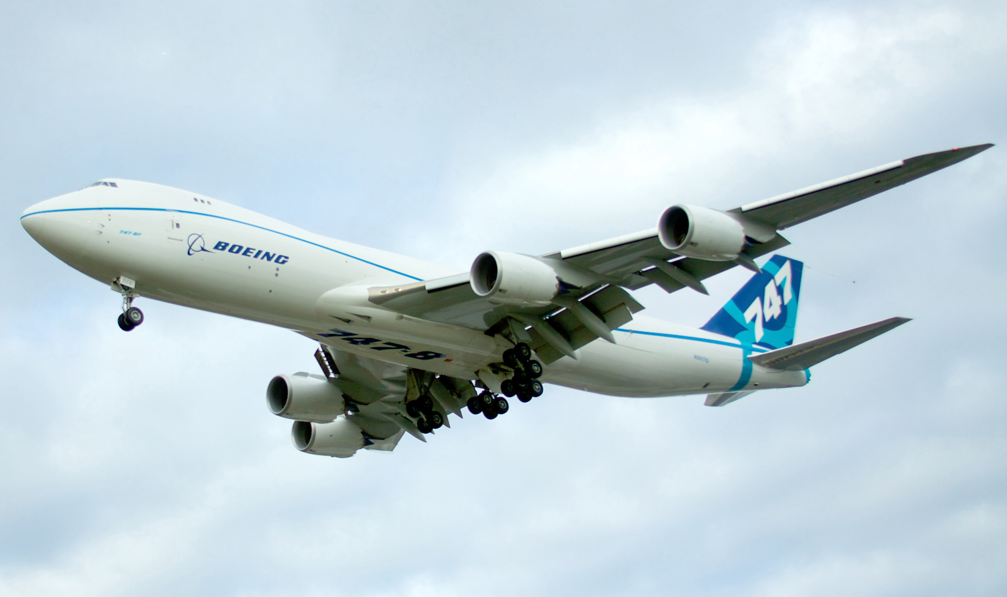 747-8 Test aircraft